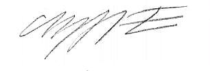 Signature of German author Christoph Meckel